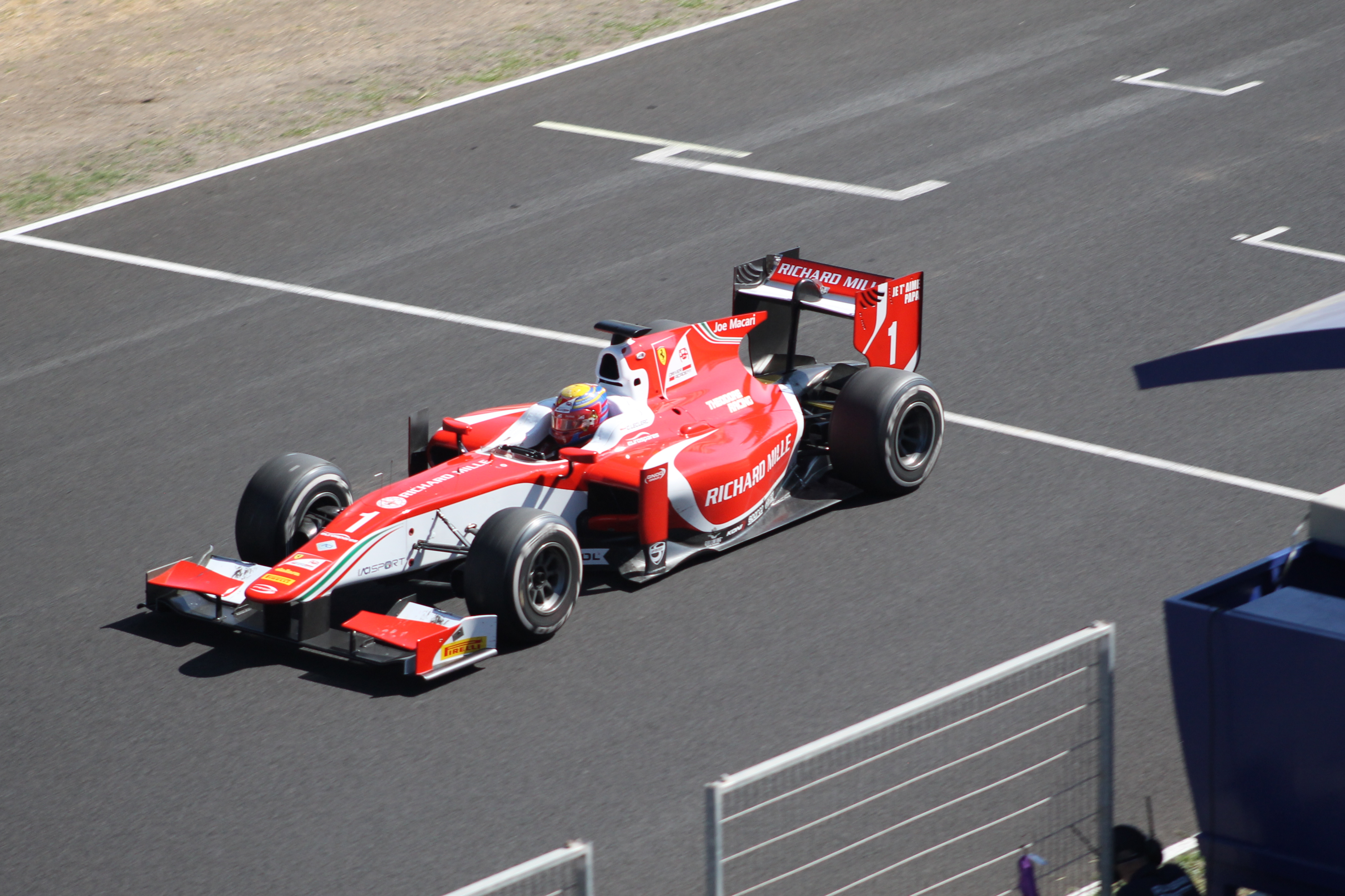 Charles Leclerc leading the Formula 2 Feature Race which won him the Formula 2 Championship at Jerez, 2017